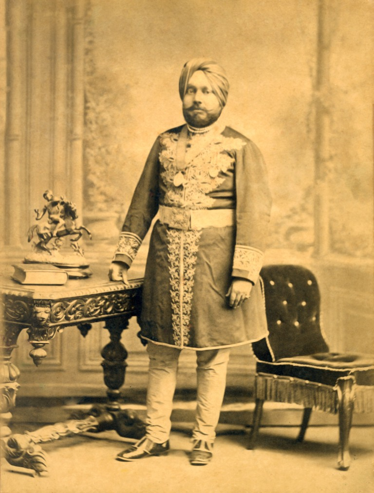 Photograph of Bikrama Singh of Kapurthala (1835-1887)